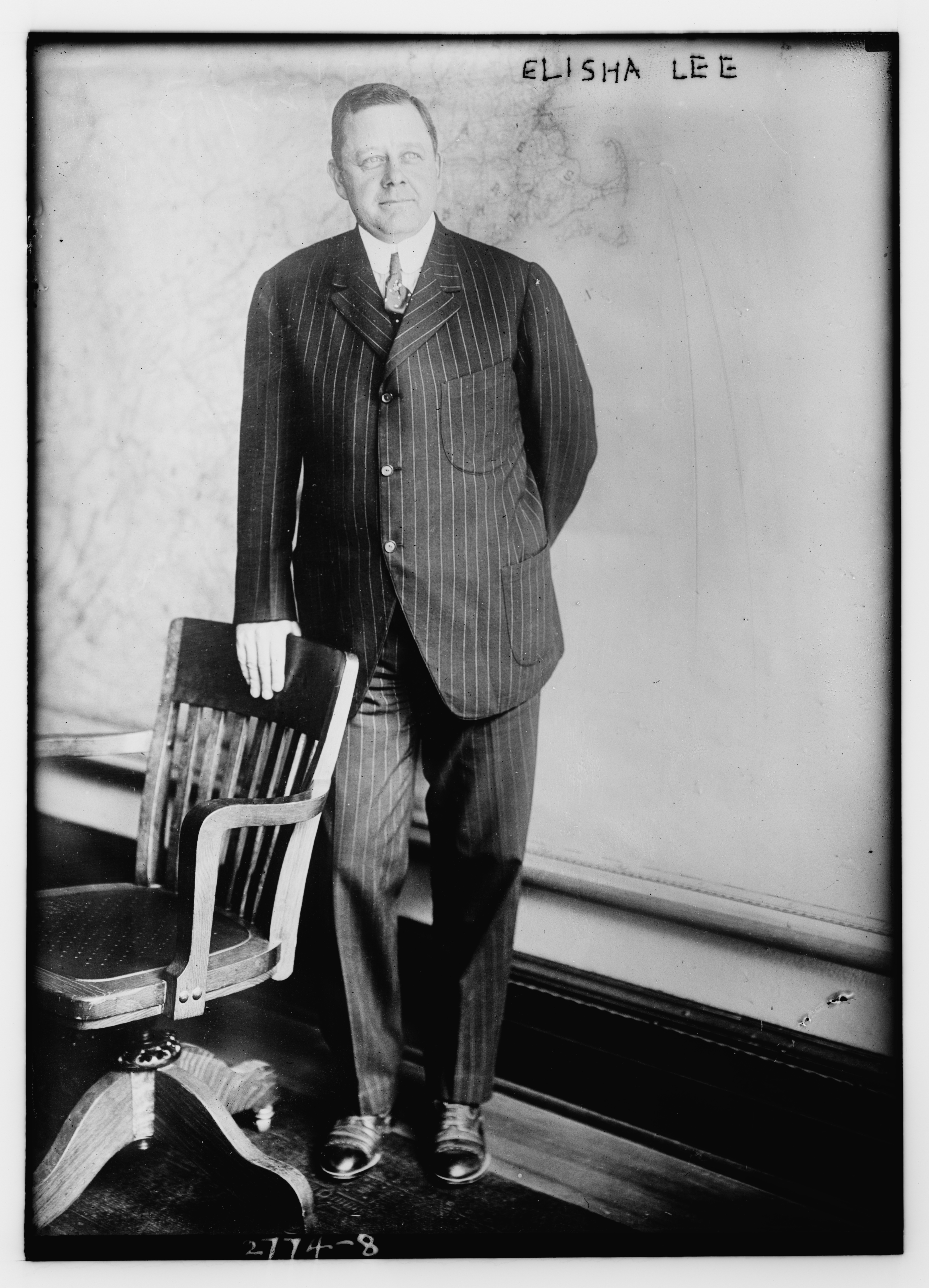 Elisha Lee (1870-1933), Vice President of the Pennsylvania Railroad. Bain News Service, publisher. 1 negative : glass ; 5 x 7 in. or smaller. Notes: Title from unverified data provided by the Bain News Service on the negatives or caption cards.